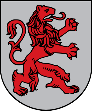 Coat of arms of Courland in the 16th century